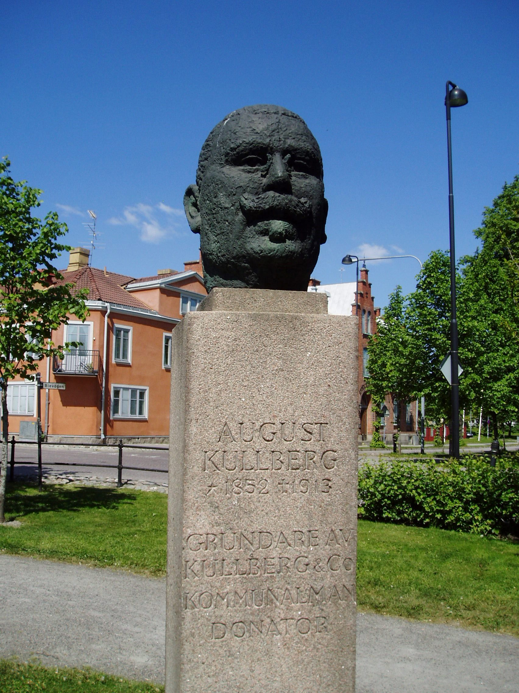 Bust, August Kullberg, swedish merchant It is not clear whether freedom of panorama applies to this image. This is a depiction of a work of art in Sweden. The depicted work is believed to be protected by copyright. According to Article 24 of the Swedish copyright act, "Works of art may be depicted if they are permanently placed on or at a public place outdoors. Buildings may be freely depicted." It has been widely accepted that this provision made distribution of depictions such as this one legal. On 4 April 2016, however, the Supreme Court of Sweden issued a statement that the first paragraph in Article 24 does not extend to publication in online repositories, and on 6 July 2017, a lower court ruled that linking to depictions of copyrighted artworks hosted on Commons in a database constitutes copyright infringement. See COM:CRT/Sweden#Freedom of panorama for more information. The second paragraph in the article, about buildings, was not evaluated in the statement or ruling. The implications of these decisions on Commons' ability to continue to distribute this and other depictions like it are currently under analysis. Reusing or linking to this file can have legal consequences, unless if the artist has died before 1 Jan 1950, to which either PD-Sweden-photo or PD-old-70 may applied. You are solely responsible for ensuring that you do not infringe the copyright belonging to someone else. See our general disclaimer for more information.